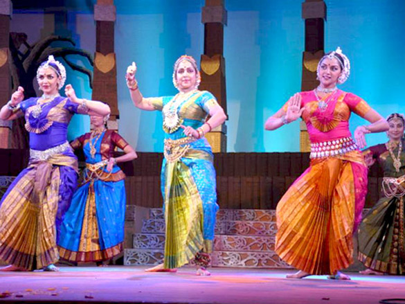 Hema Malini, Esha and Ahana perform together in Nov 21, 2010